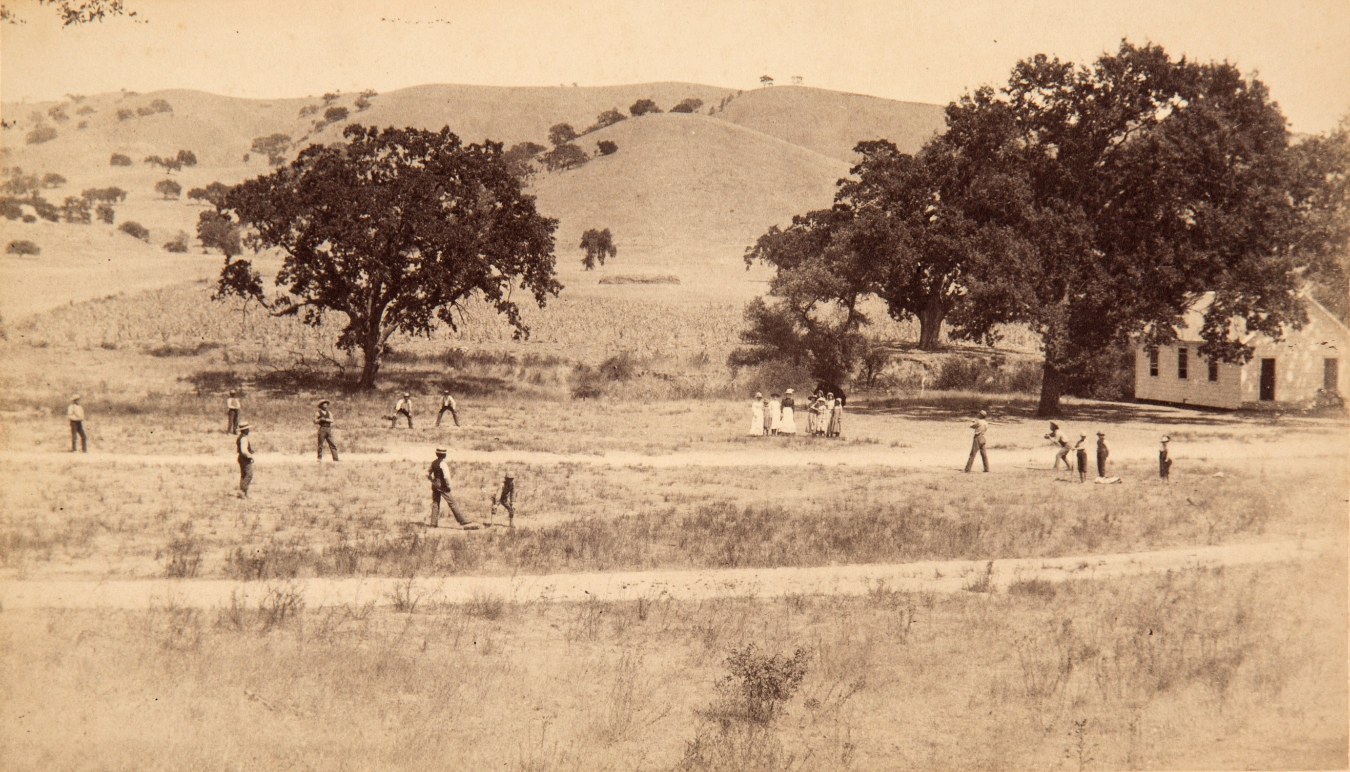 The earliest photograph of baseball being played in California